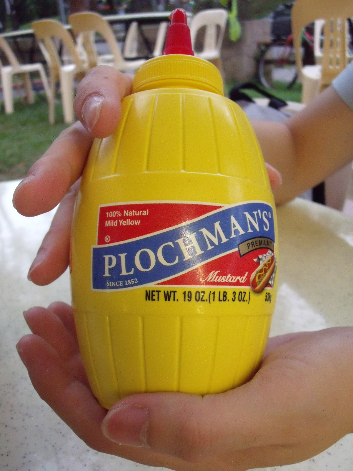 David holding a squeeze bottle of Plochman's mustard